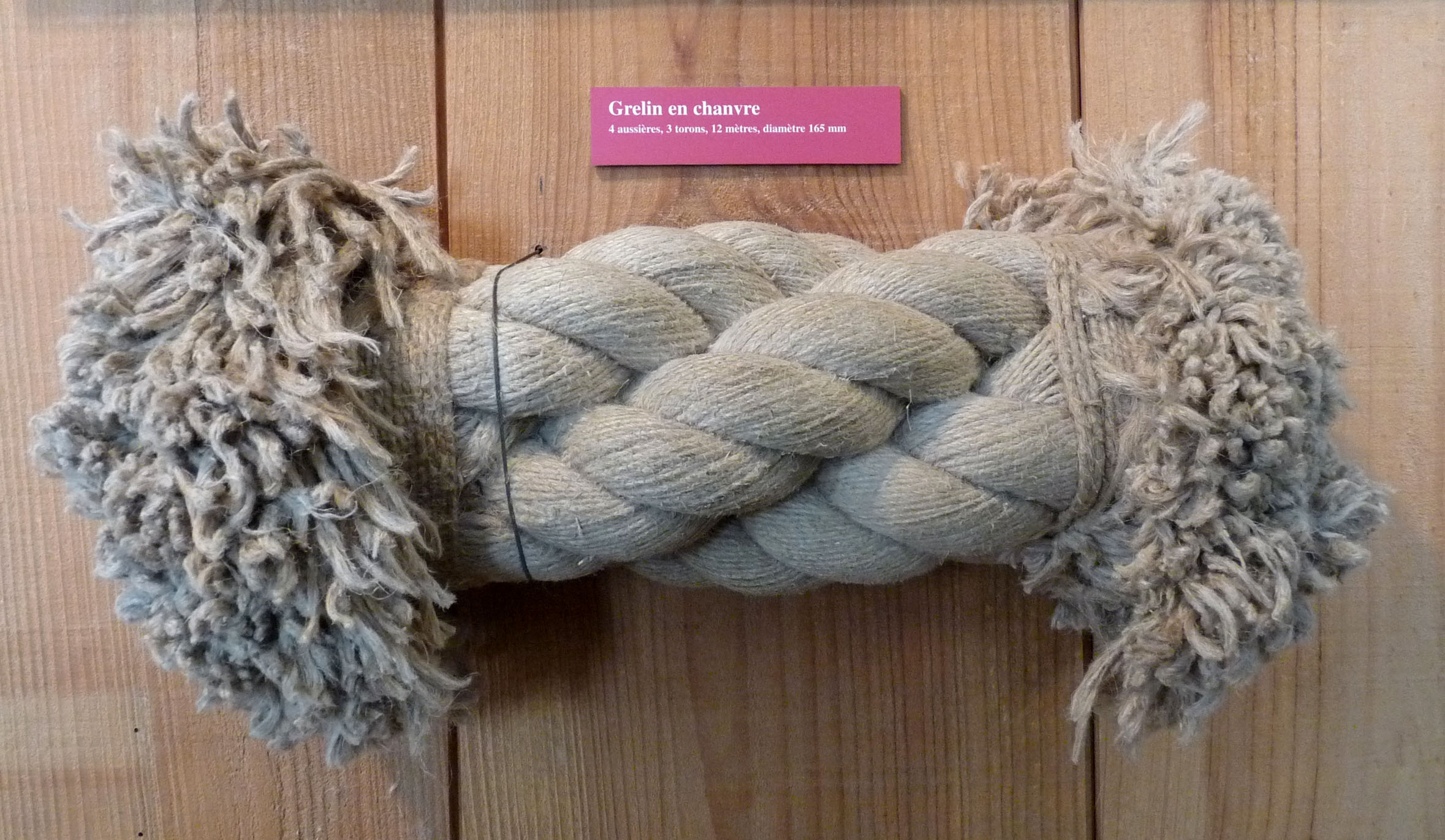 Big hemp rope (grelin in French) shown at the Corderie Royale of Rochefort (Charente-Maritime)